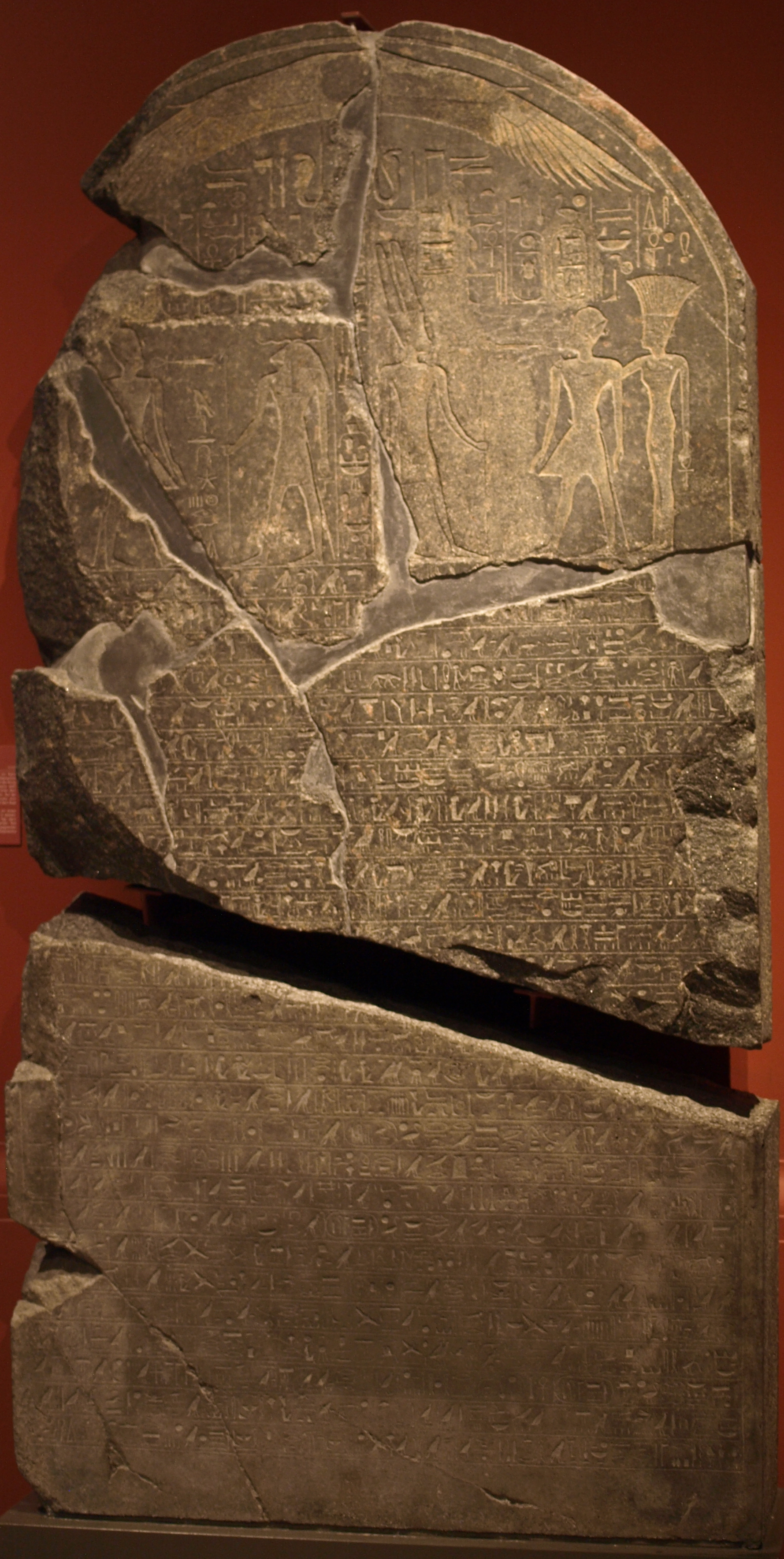 Elephantine Stele of Amenhotep II. Made of Grandorite, originally from Elephantine 18th dynasty, reign of Amenhotep II (circa 1436-1412 BCE) - ÄS 5909 Translation from the original German caption This stele, whose original base is located in the Cairo Museum, was originally set up within the Temple of Khnum in Elephantine. Below the winged sun disk, the pharaoh is shown together with the gods. In the linked scene Amenhotep II is about to be presented to the ram-headed god Khnum, and behind the pharaoh is the goddess Satis. On the right side of the pharaoh is the goddess Anukis who is led to the god Amun, who has a high crest of feathers on his head. The inscriptions below begin with a throne-date from the reign of Amenhotep II: "In the third year in the third month of the harvest season, on the 14th day" then follows the title and deeds of the pharaoh. It records his deeds, including a successful campaign against Syria, and dedicated war booty and prisoners to the Temple of Khnum in Elephantine where he then set up this stele.